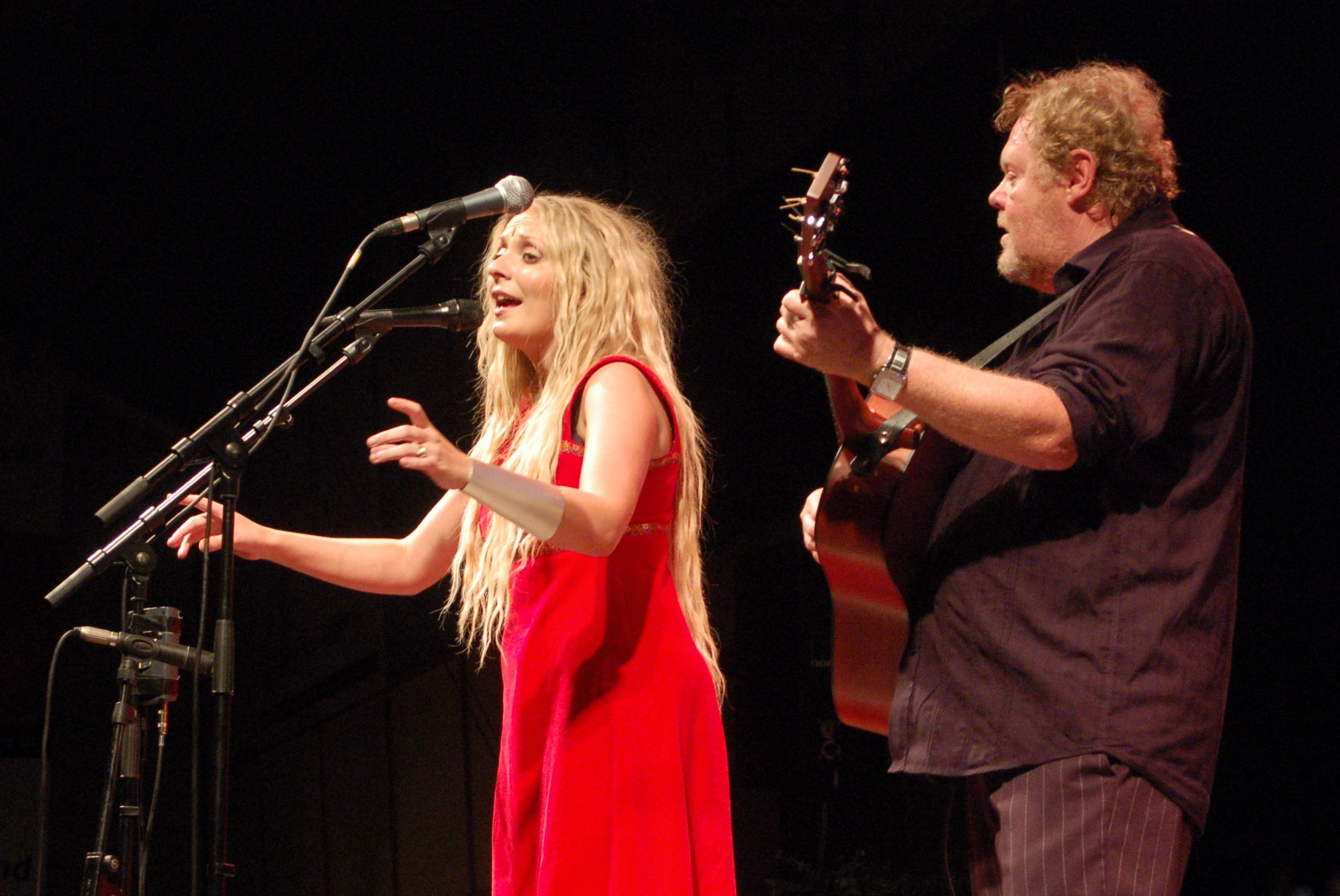 Eivør Pálsdóttir and Sebastian (Danish musician) on stage in Tønder, 25 August 2006